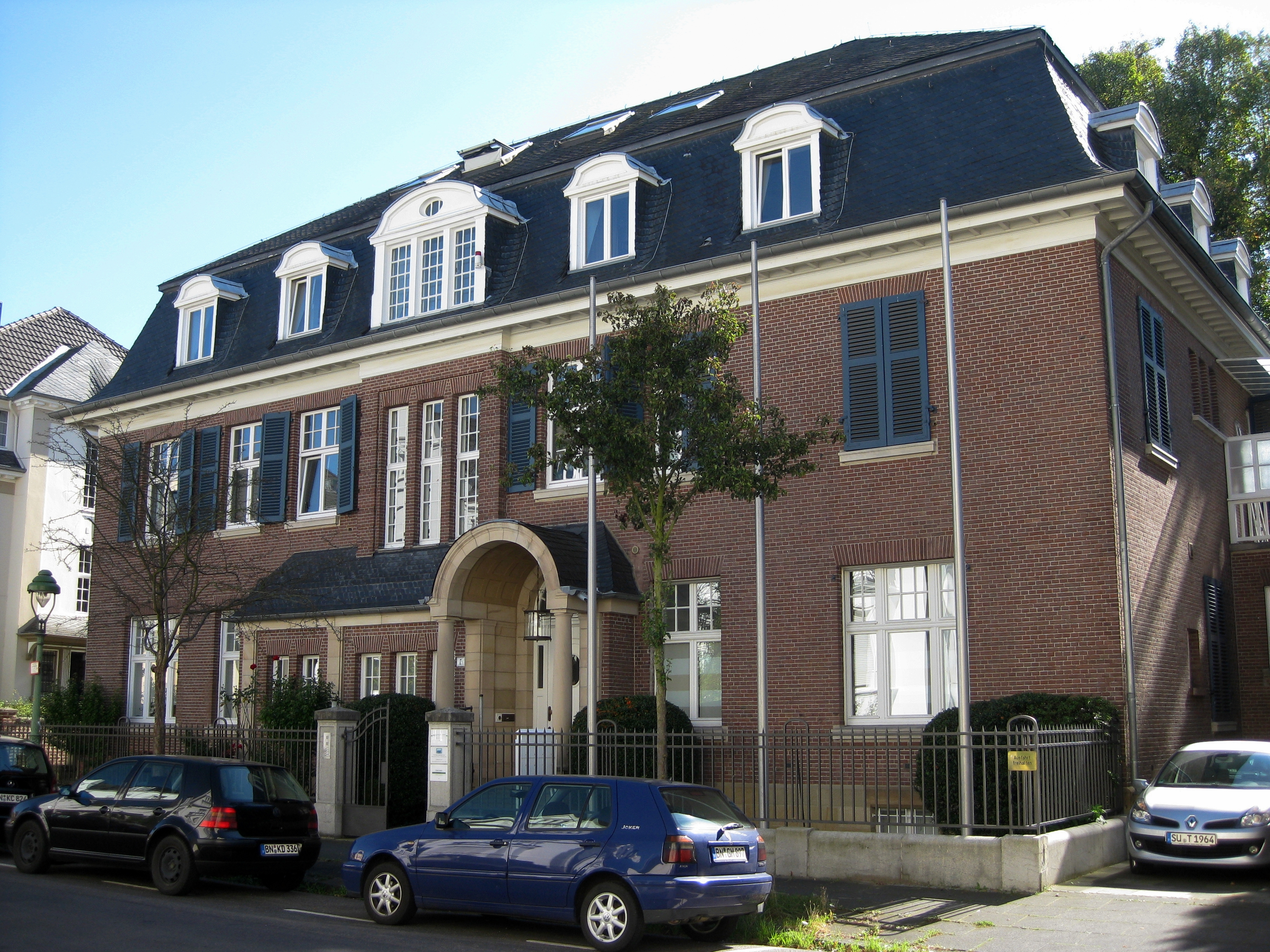 Bonn, Joachimstraße 7: former representative of the Bundesland Berlin to the Federal Government.